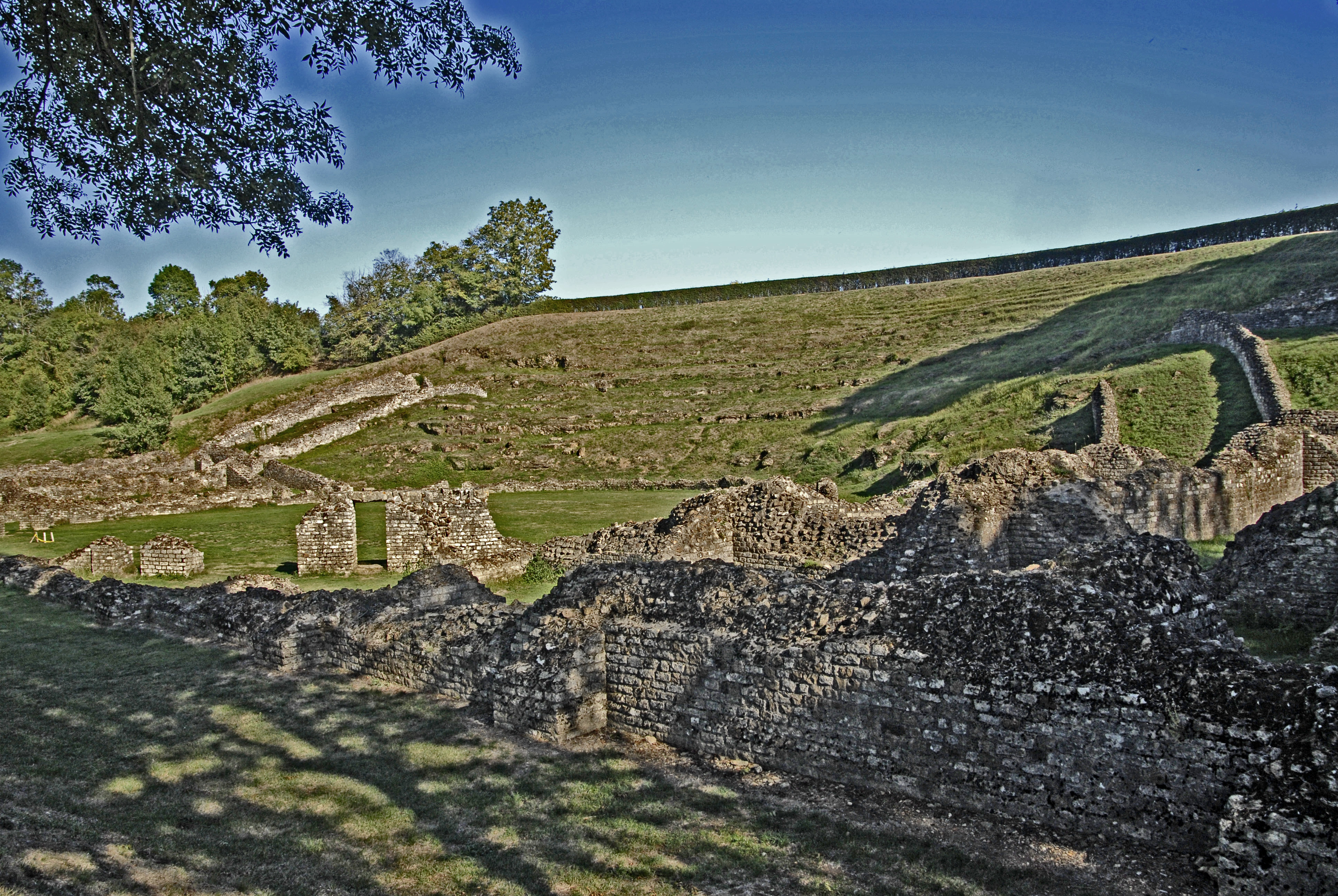 Amphitheater of Sanxay